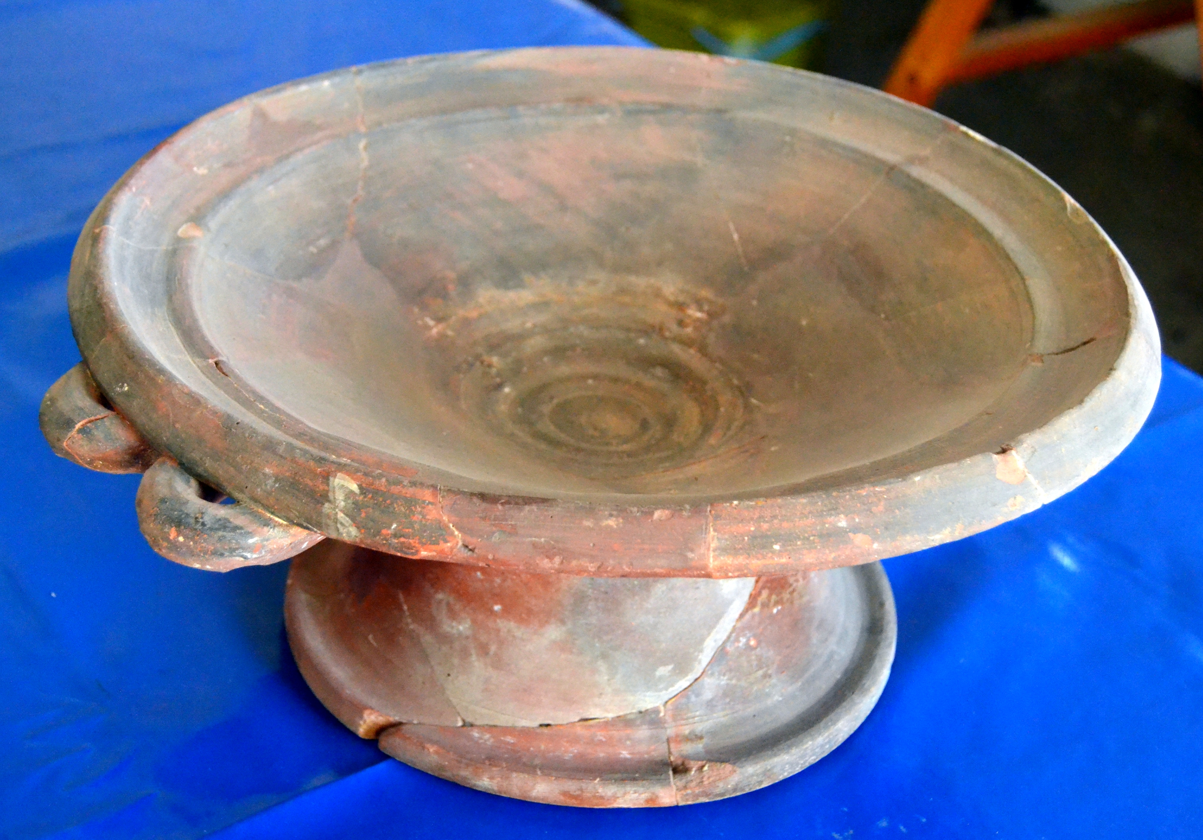 Clay Eschara found at Building Z3 at Kerameikos at Athens, As.Nr. Kerameikos 5127; ca. 375-325 BC.